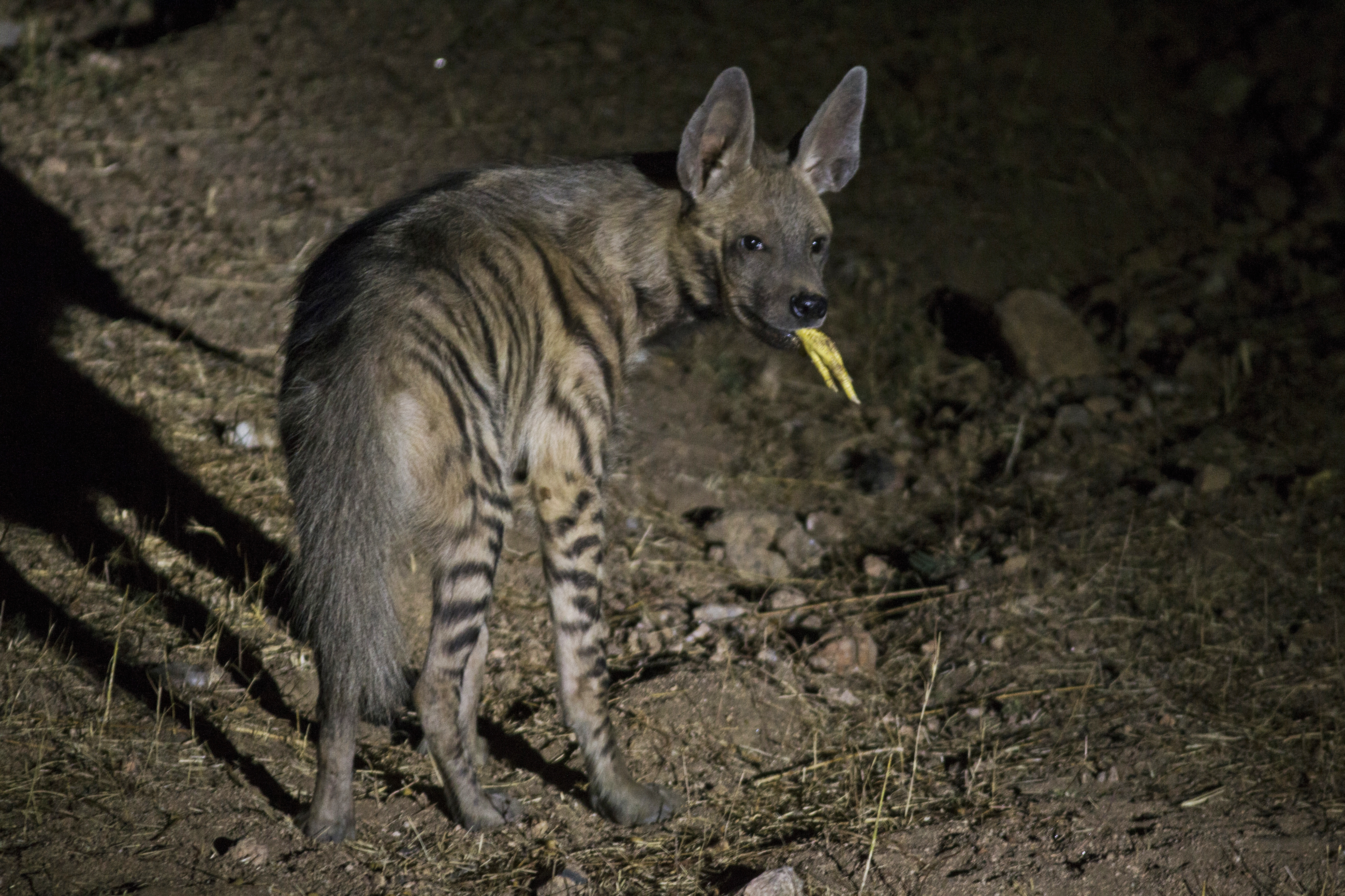 Hyena feasting on poultry farm wastage